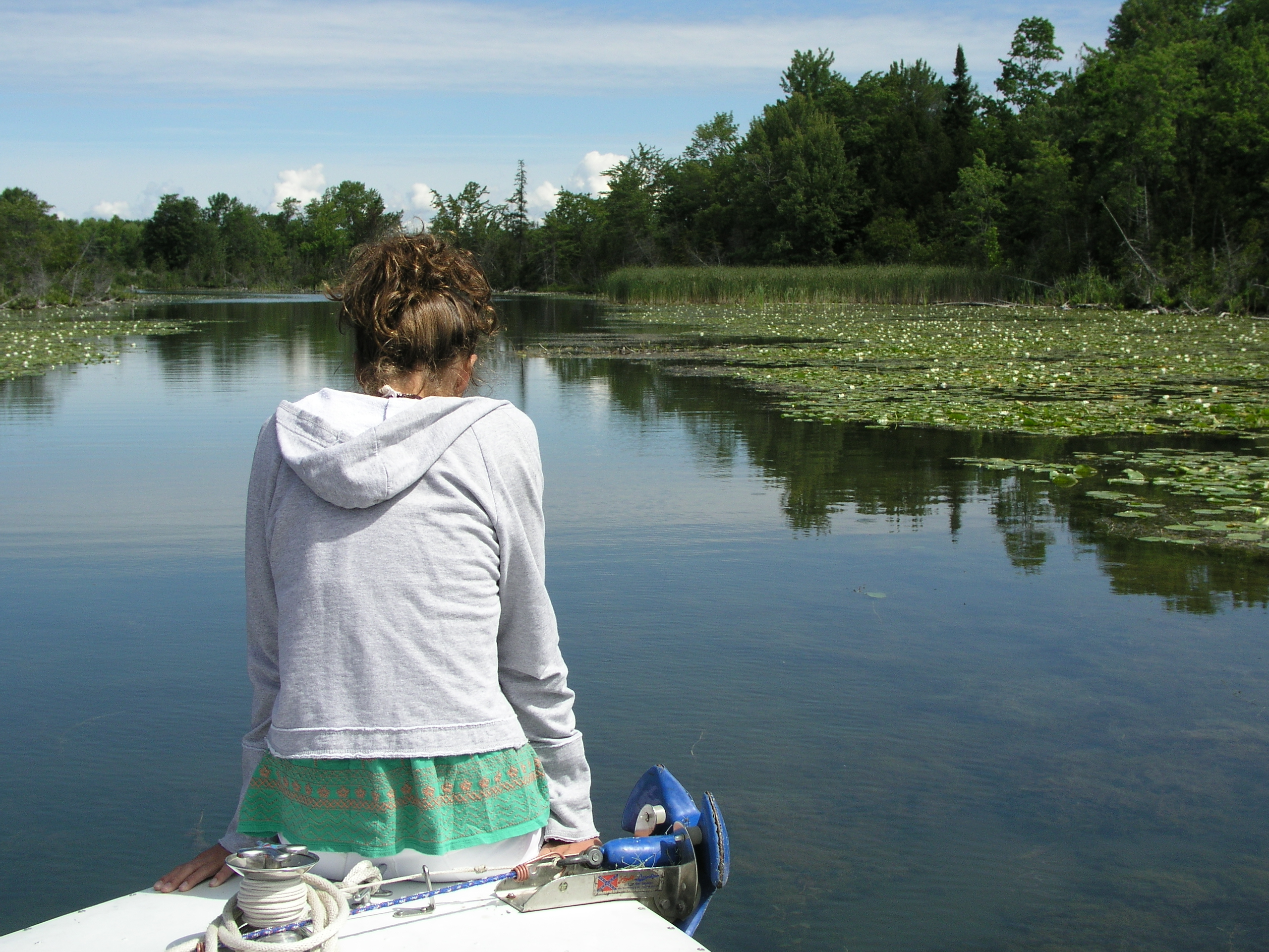 I took this photo from my boat during the July 30, 2005 traveling downriver from Lake Kagawong towards Bridal Veil Falls.